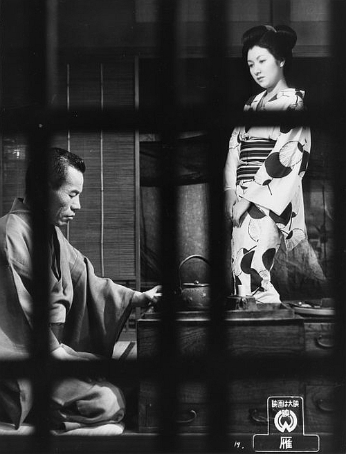 Eijirō Tōno and Hideko Takamine in Gan (雁) directed by Shirō Toyoda - 1953